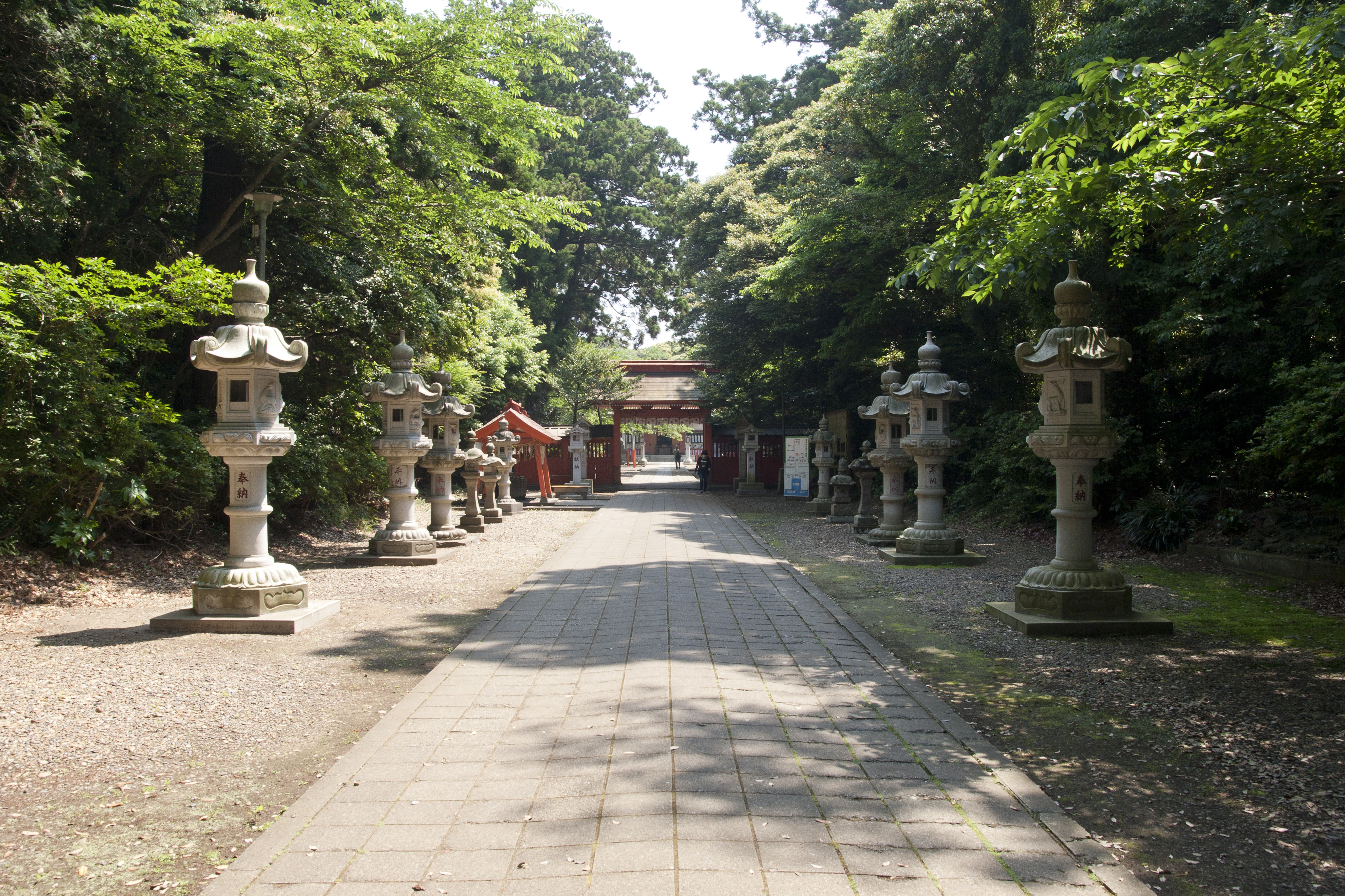 Ikisu Shrine, Kamisu City, Ibaraki Pref., Japan